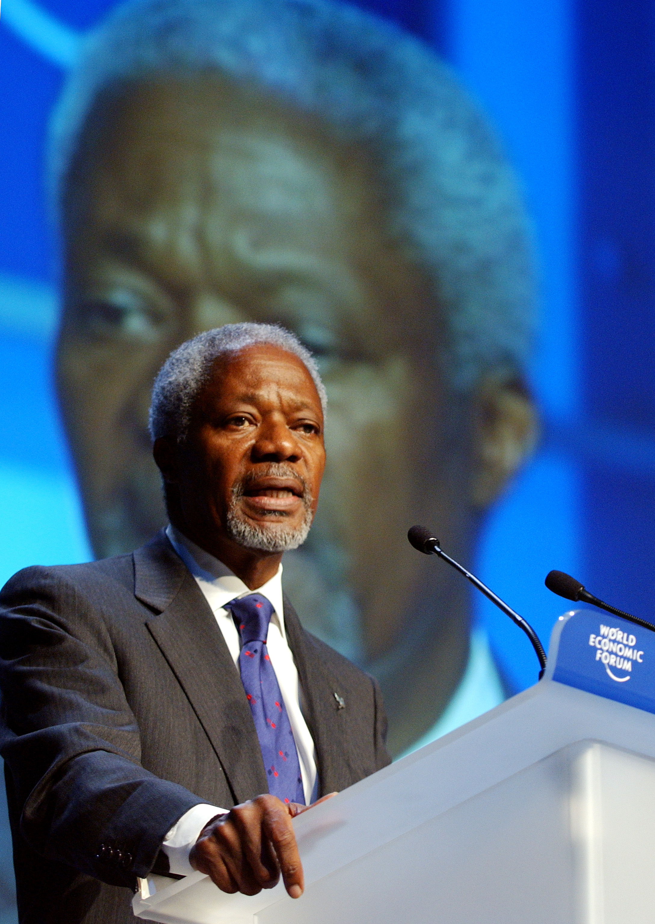 DAVOS/SWITZERLAND, 23JAN04 - Kofi Annan, Secretary-General, United Nations, New York, delivers a speech during the session 'The Future of Global Interdependence' at the Annual Meeting 2004 of the World Economic Forum in Davos, Switzerland, January 23, 2004. Copyright World Economic Forum ( by Remy Steinegger